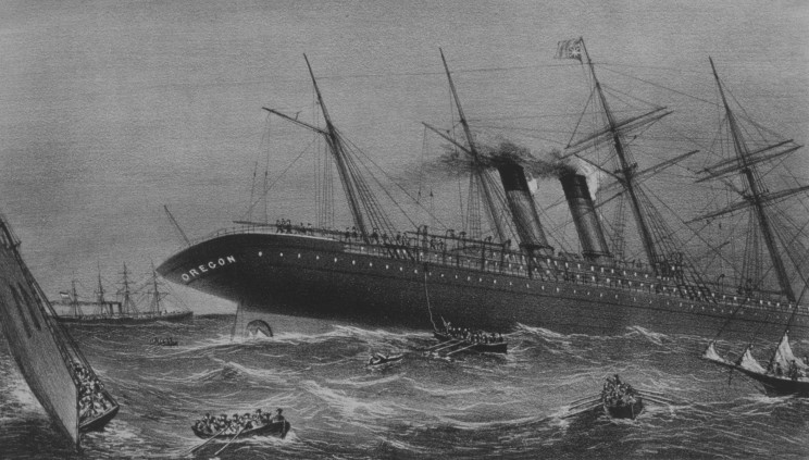 The sinking of Cunard Line's steamship Oregon, 14 March 1886, 15 miles off Long Island